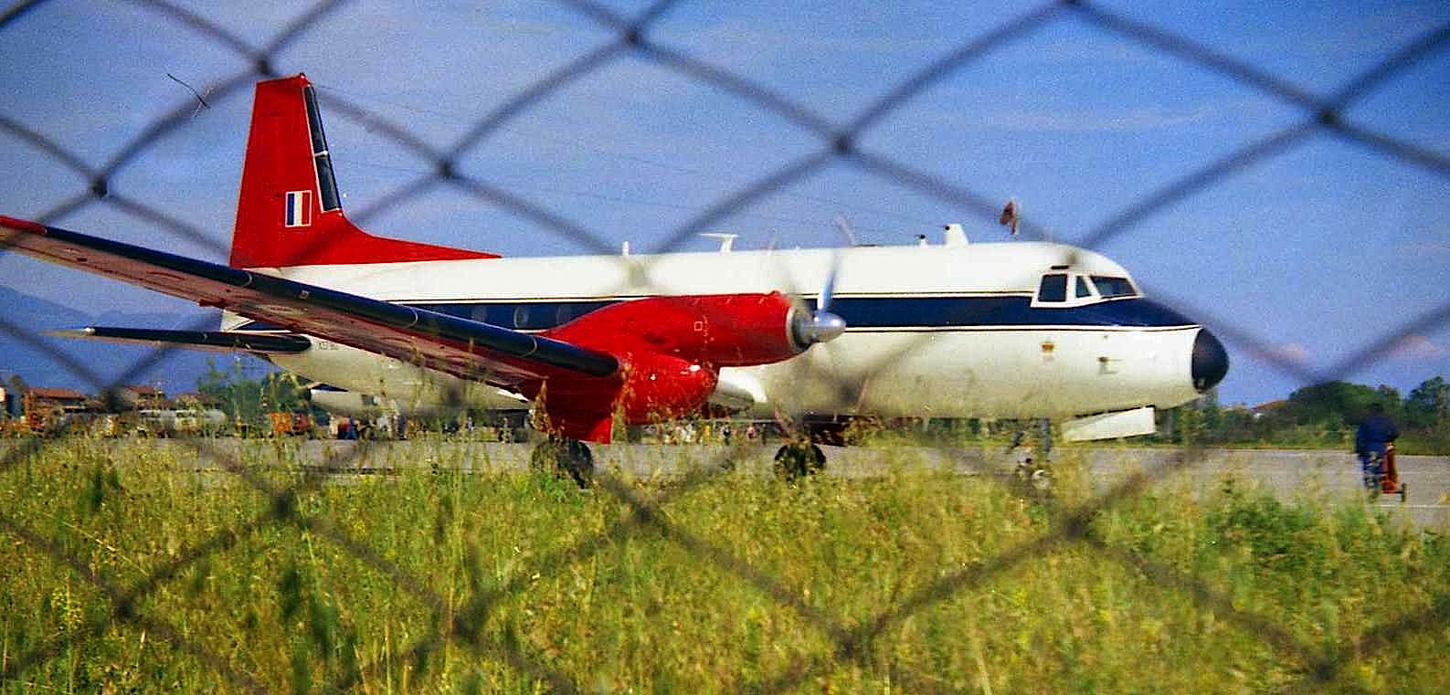 Italy, Pisa International Airport. Royal Air Force Hawker Siddeley Andover CC Mk 2 XS 790 belonged to the Royal Flight taken in 1974 at Pisa Airport.